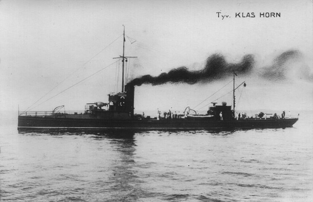 Finnish dispatch vessel Klas Horn, after 1918.